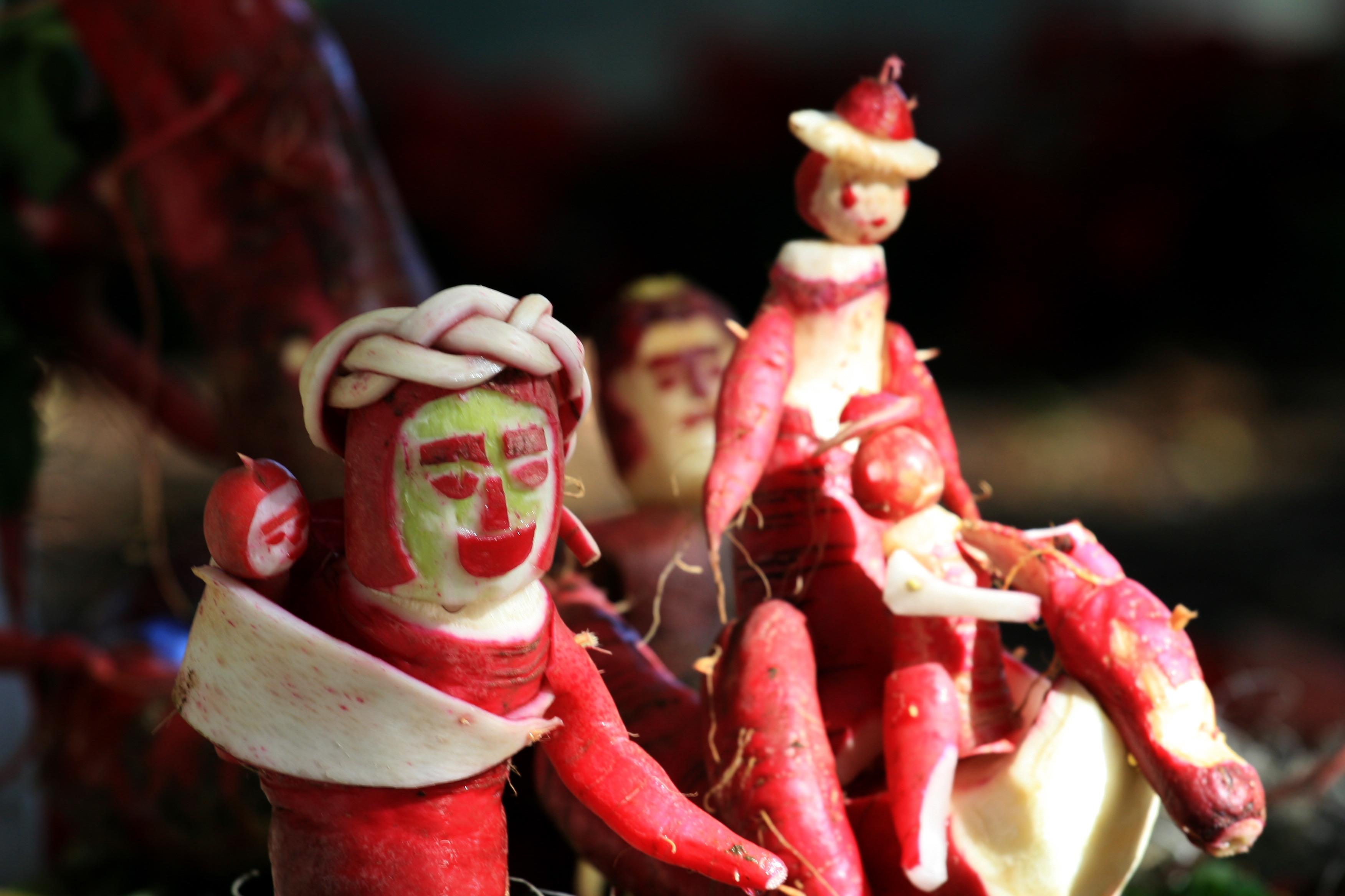 Day of the Night of the Radishes in Oaxaca